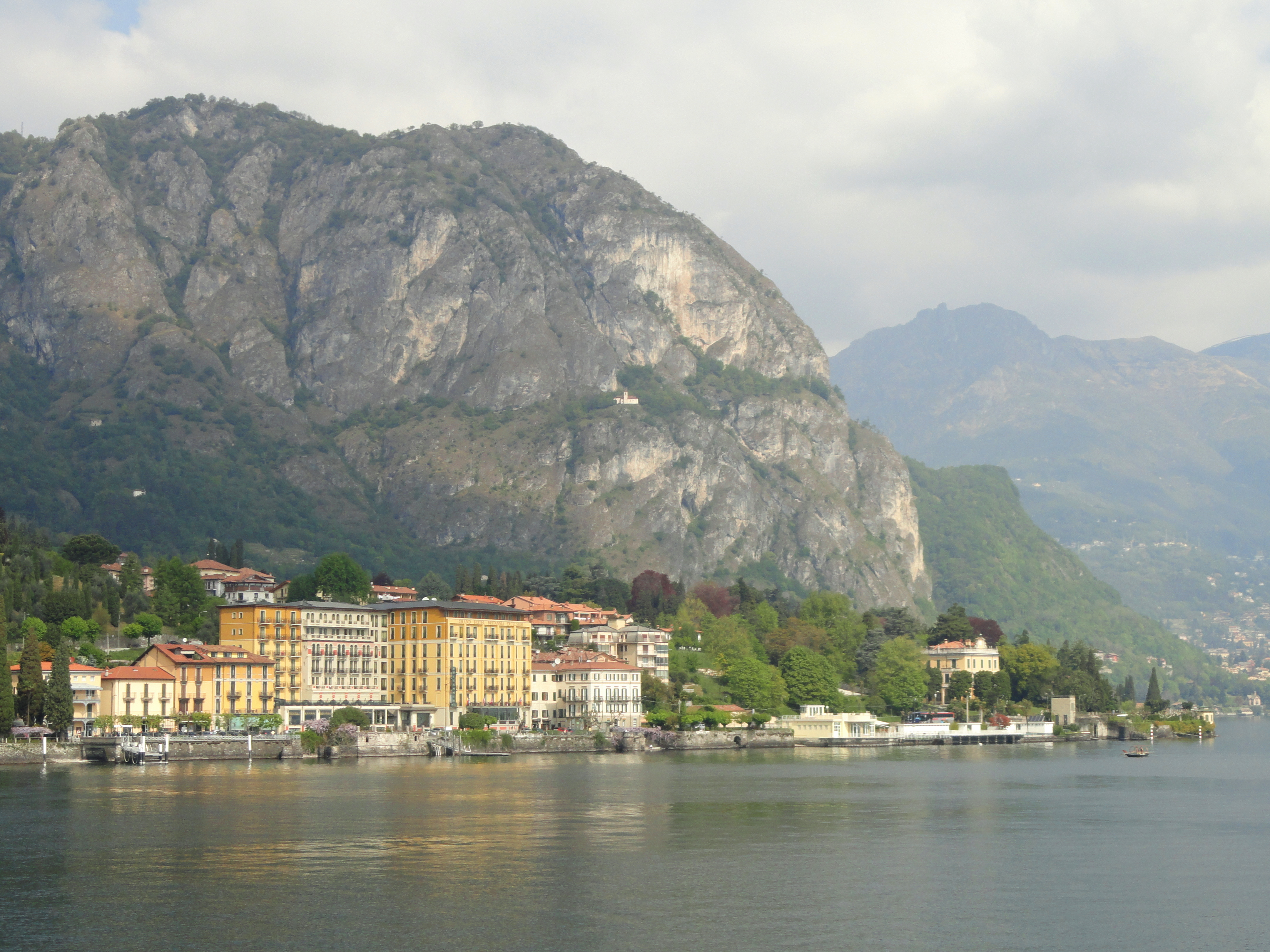 Cadenabbia on Lake Como, Italy.